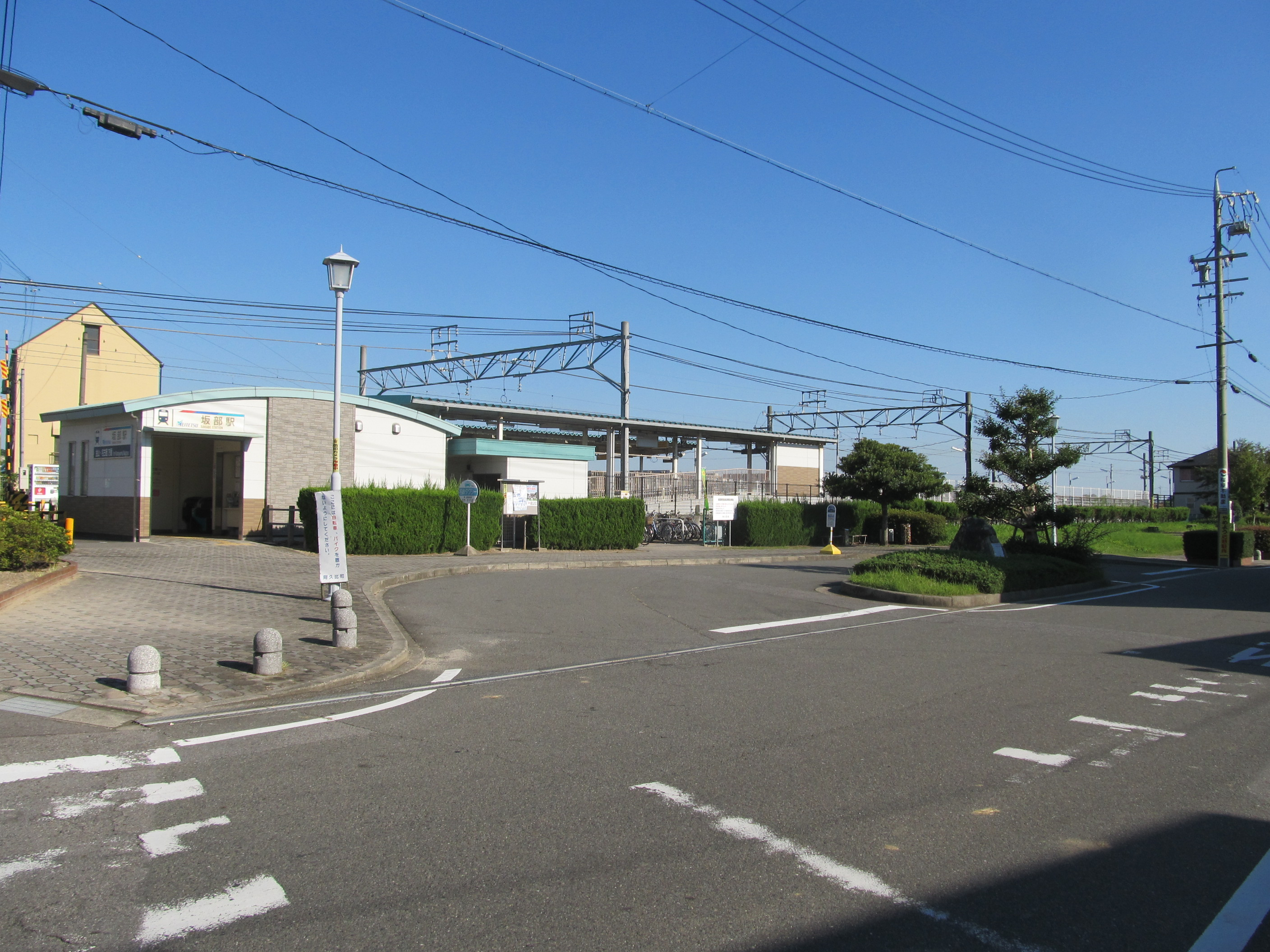 Nagoya Railroad Kowa Line Sakabe Station Plaza